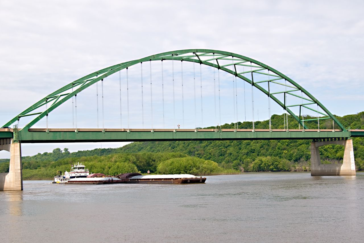 Dubuque-Wisconsin Bridge crossing the Mississippi River in Iowa and Wisconsin.